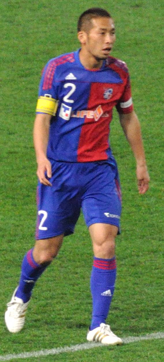 Yuhei Tokunaga cropped from 0-0